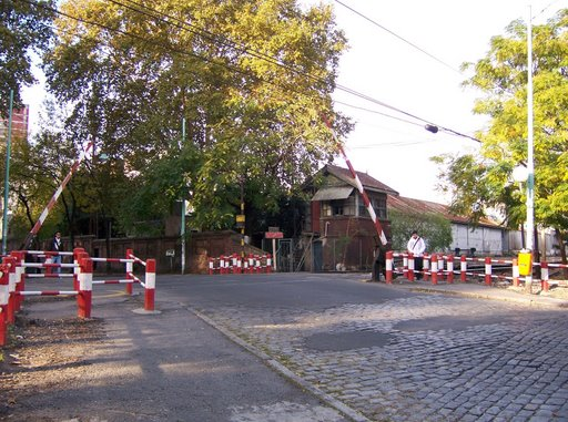 Level crossing on Virrey Avilés street with manual barriers. The same photo is also posted on Panoramio.